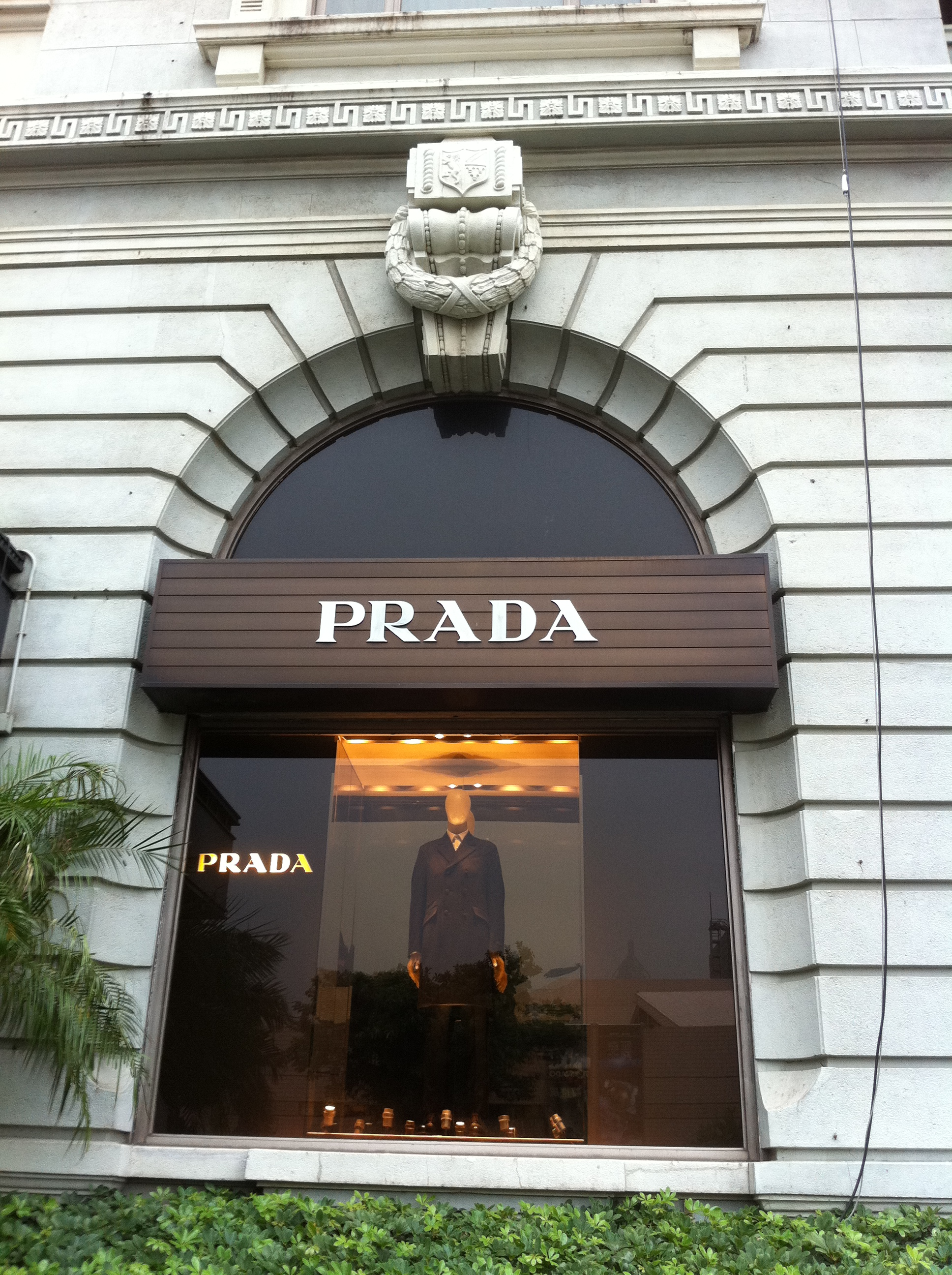 半島酒店, The Peninsula Hong Kong Hotel, Tsim Sha Tsui, Hong Kong